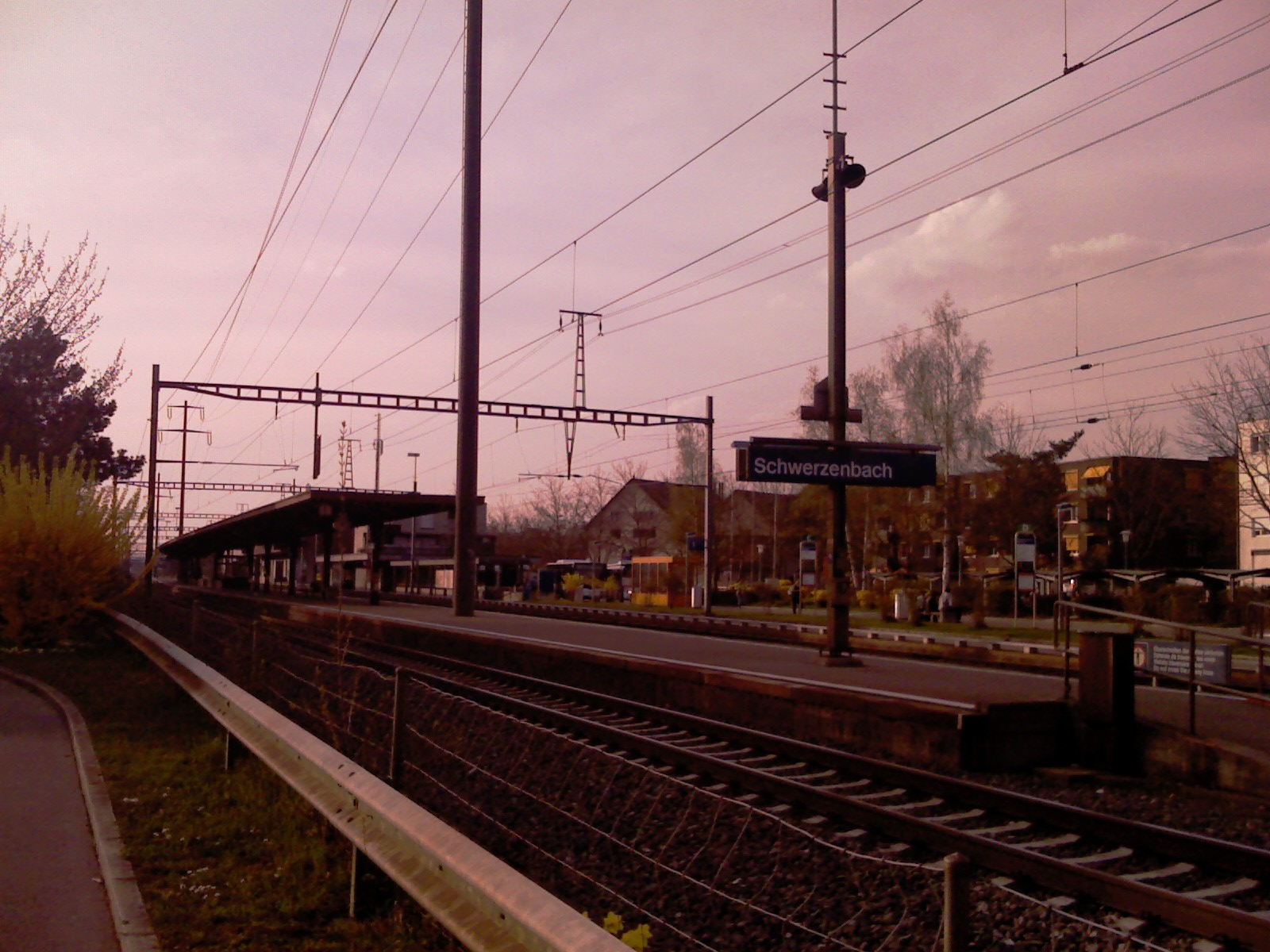 Train station of Schwerzenbach, canton of Zürich, SwitzerlandEsperanto: Stacidomo de Schwerzenbach, Kantono Zuriko, Svislando